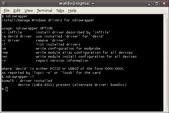 usage of ndiswrapper